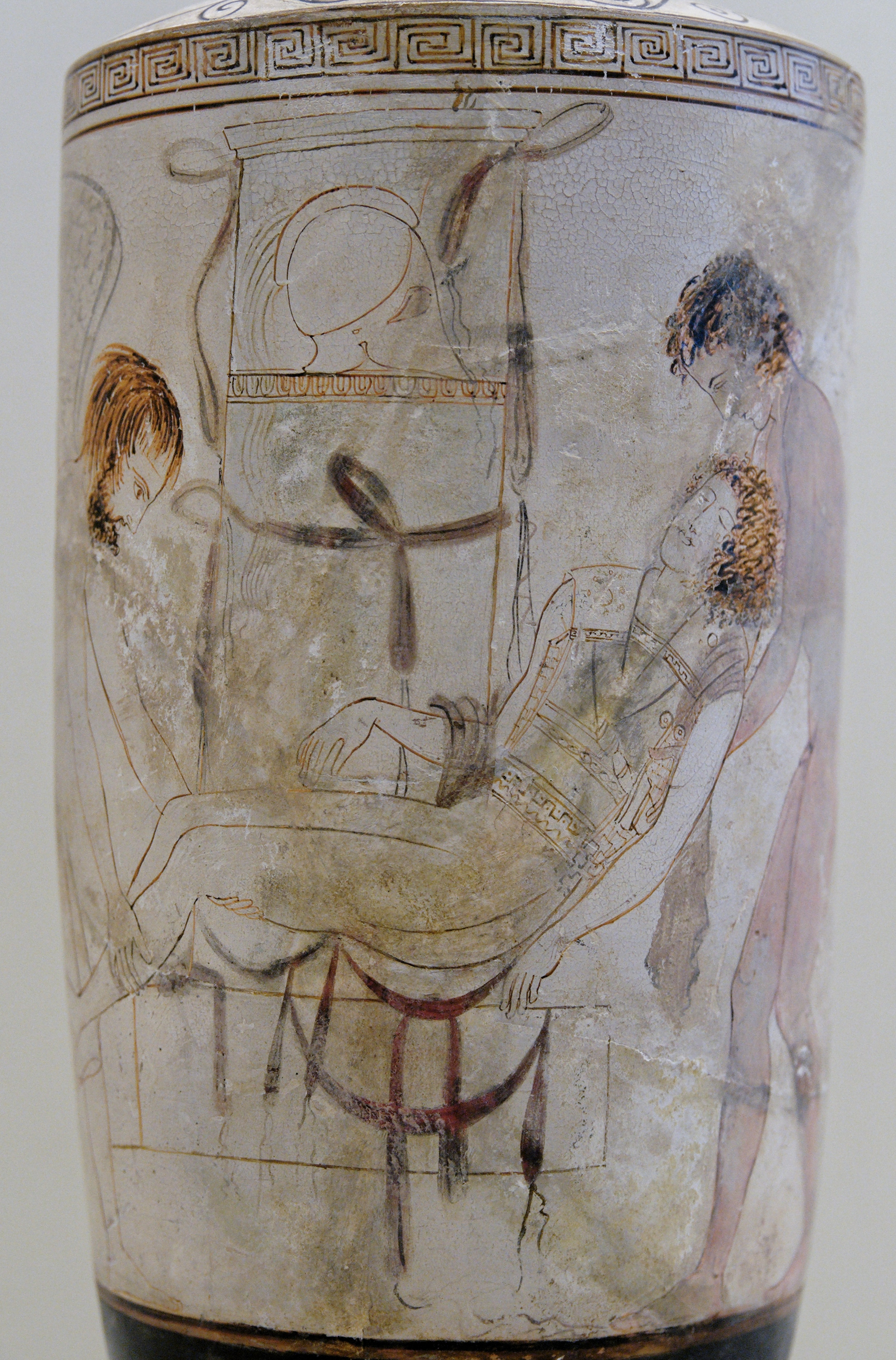 Hypnos and Thanatos carrying the body of Sarpedon from the battlefield of Troy. Detail from an Attic white-ground lekythos, ca. 440 BC.